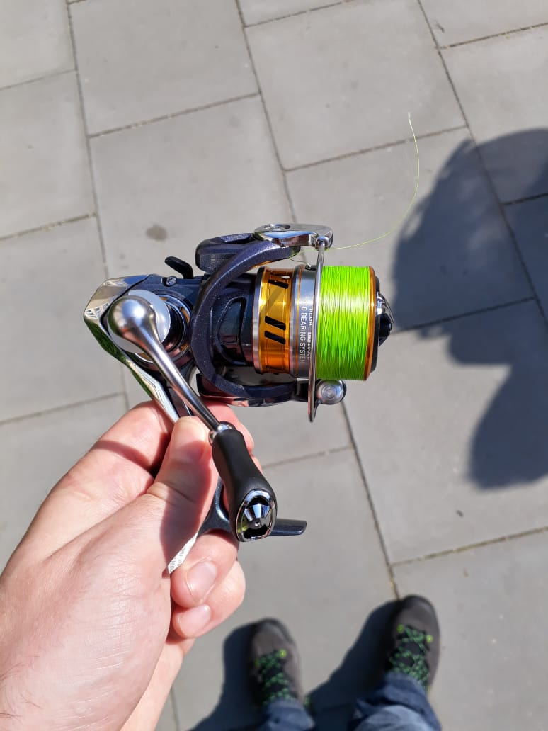 Smaller spinning reel for spin fishing